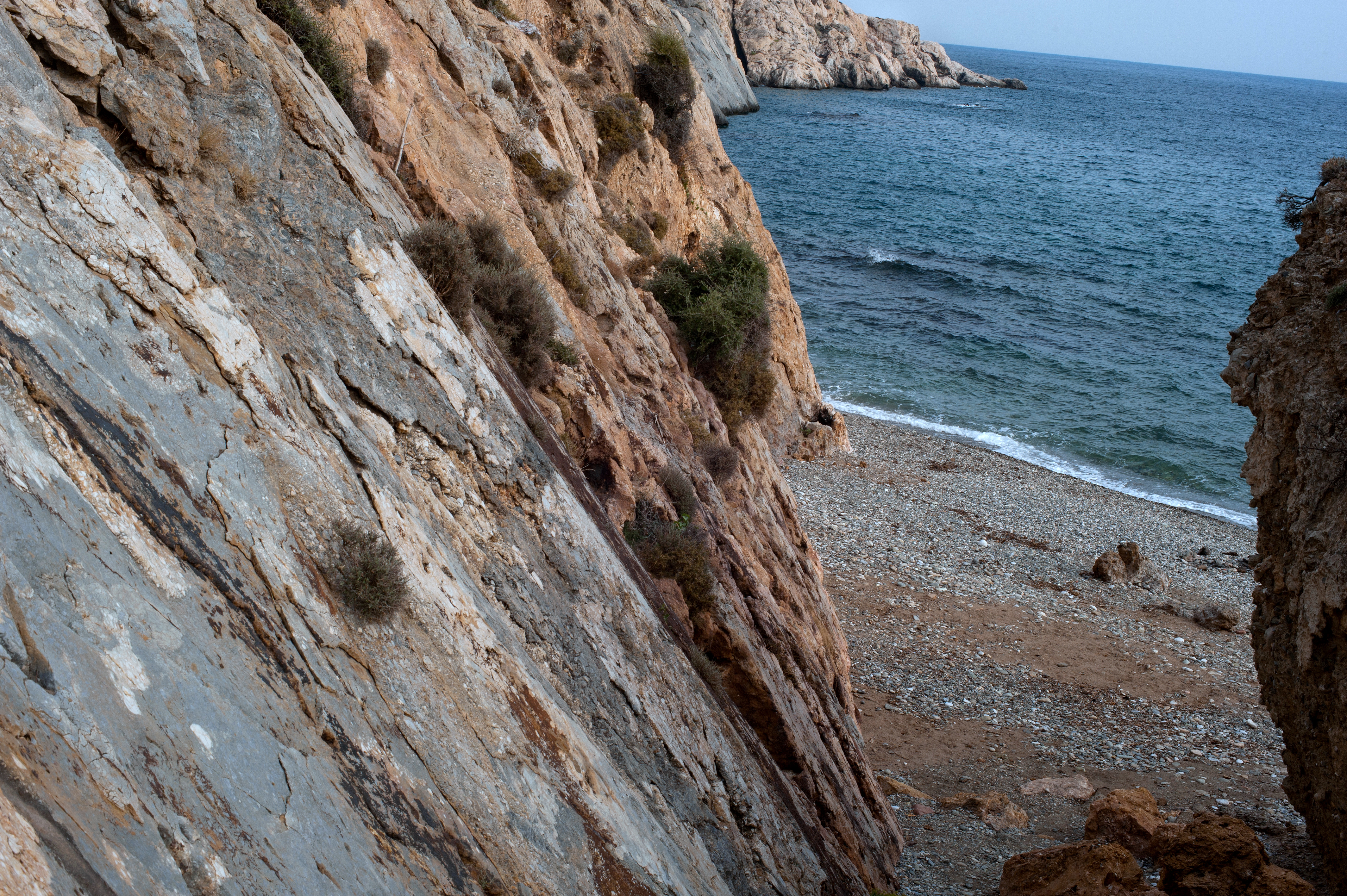 Active fault of Maronia-Makri, Marmaritsa, Rhodope, Thrace, Greece.